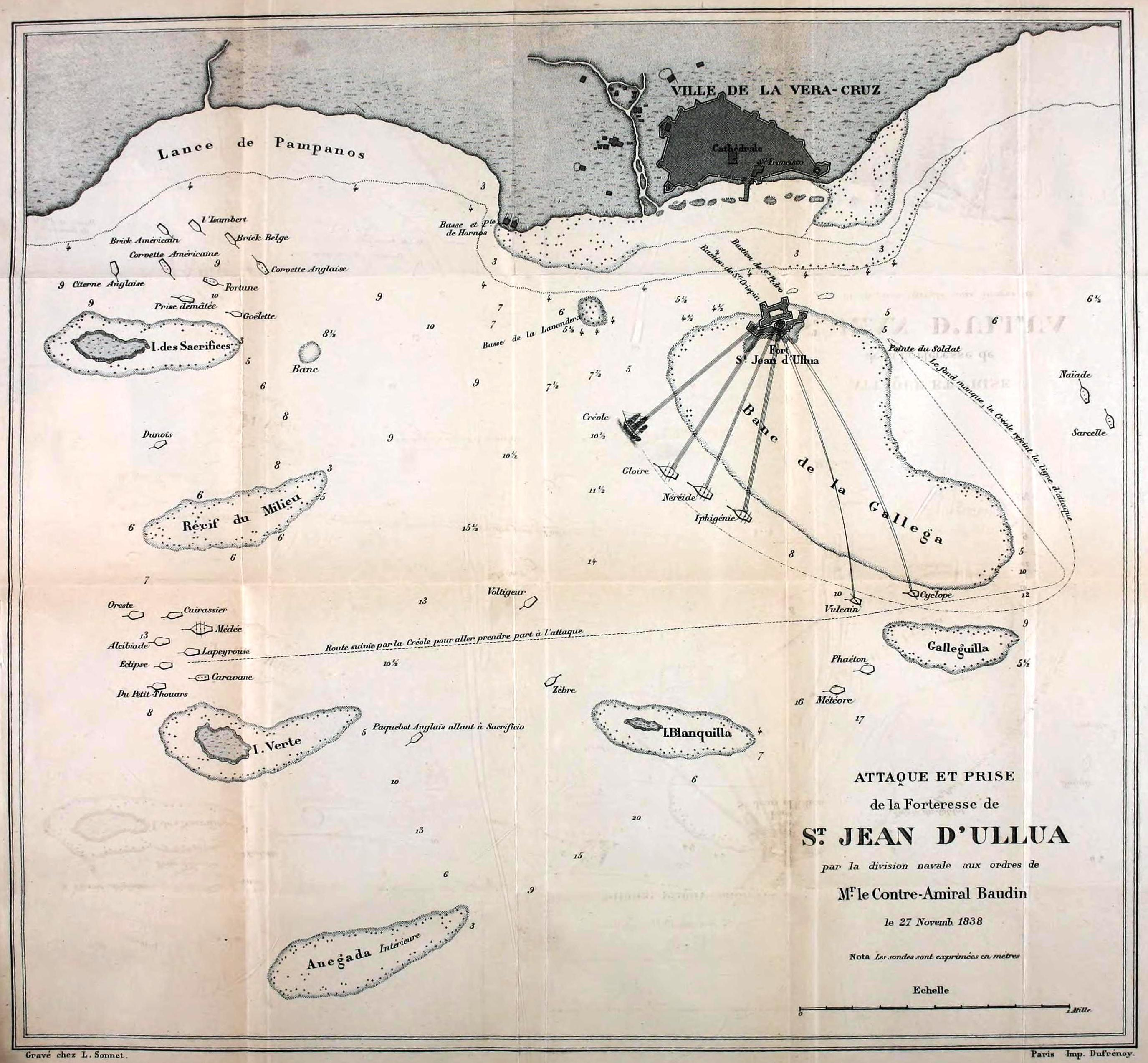 Plan the bombing of fort Saint-Jean Ulloa, November 27, 1838, with position of French vessels. Vice-Admiral Baudin expedition, conflict between the France and the Mexico.